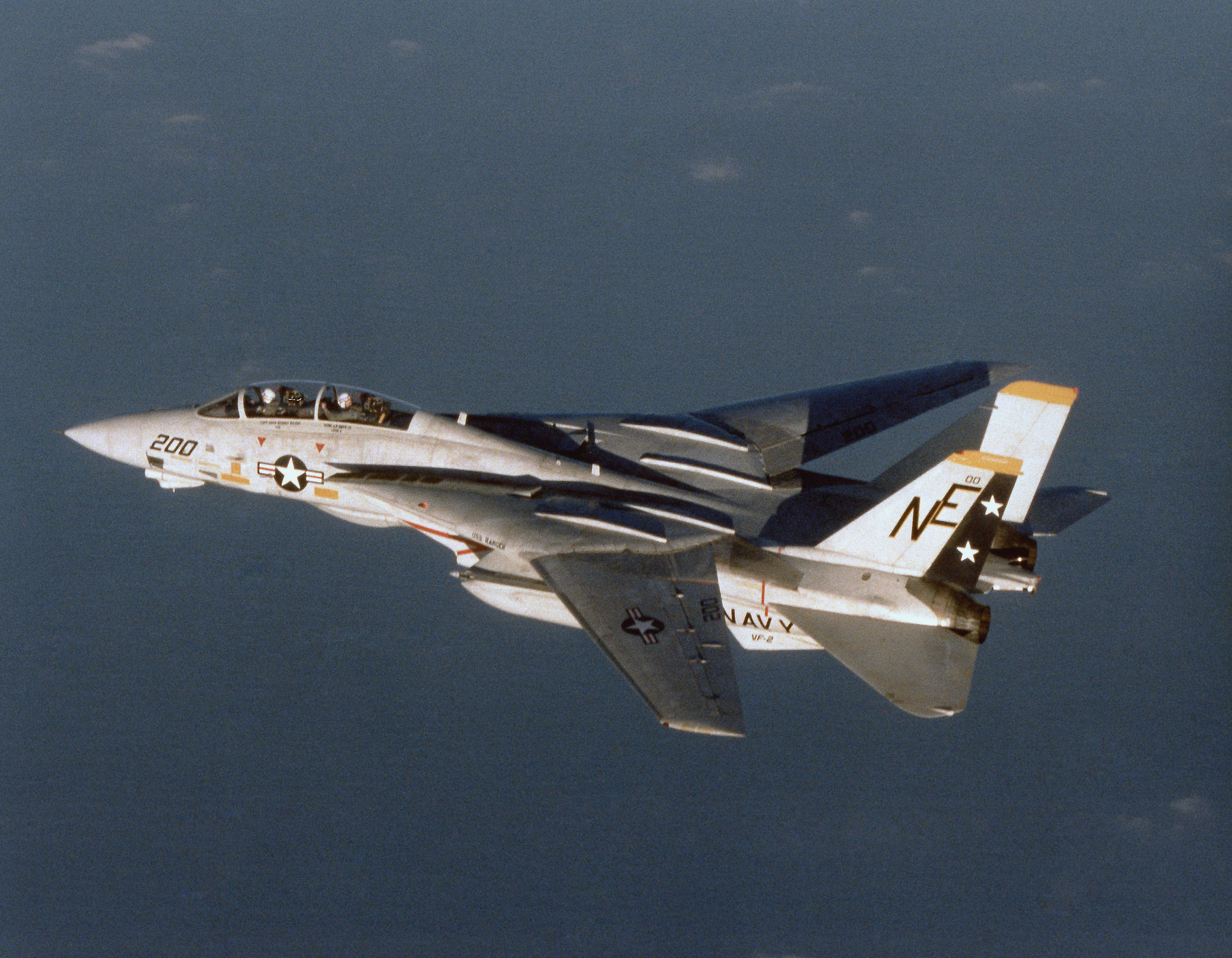 High port view of an F-14A Tomcat, Fighter Squadron TWO (VF-2), Bounty Hunters, Naval Air Station (NAS) Oceana, Virginia Beach, Virginia, on a training mission over the Pacific Ocean south of San Diego, California.Location: SAN DIEGO, CALIFORNIA (CA) UNITED STATES OF AMERICA (USA)